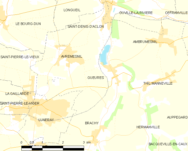 Map of French municipality Gueures